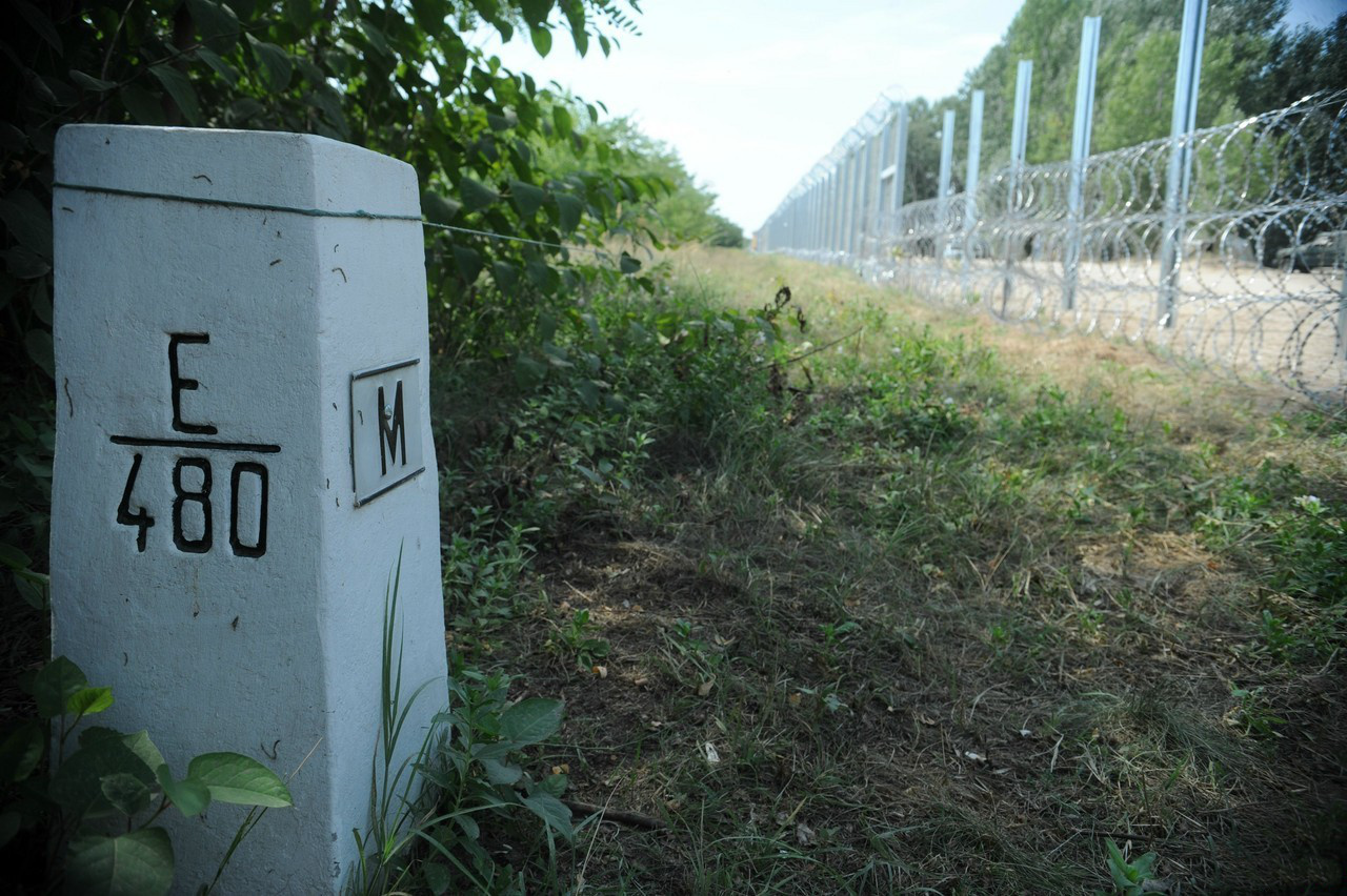 Barrier in Hungarian-Serbian border